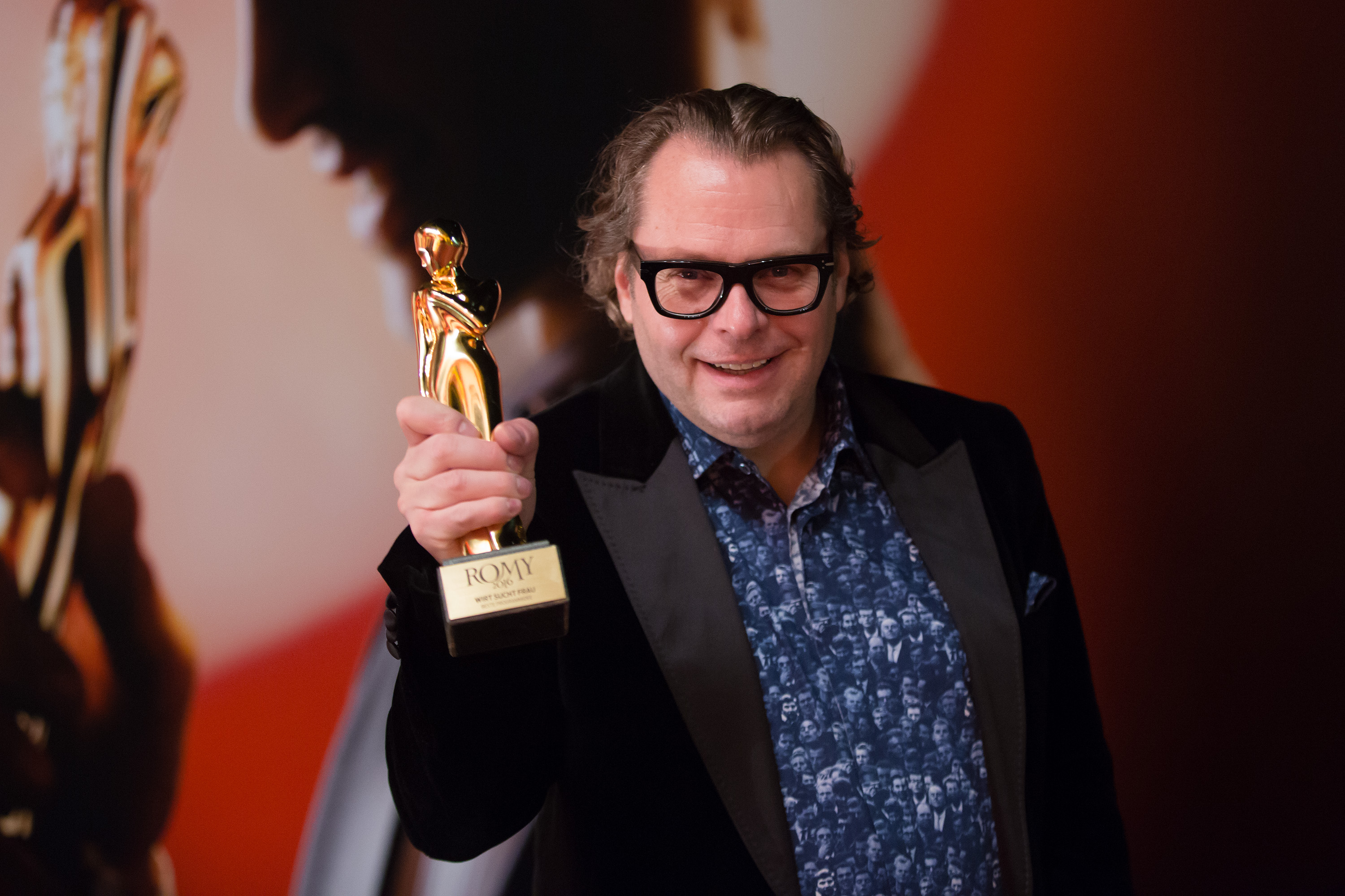 Martin Gastinger on the red carpet of the Romy TV awards 2016 at Hofburg Palace in Vienna, Austria.